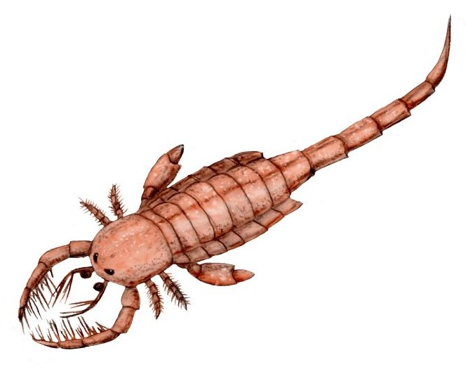 Mixopterus kiaeri, an eurypterid from the Silurian of Norway, pencil drawing, digital coloring